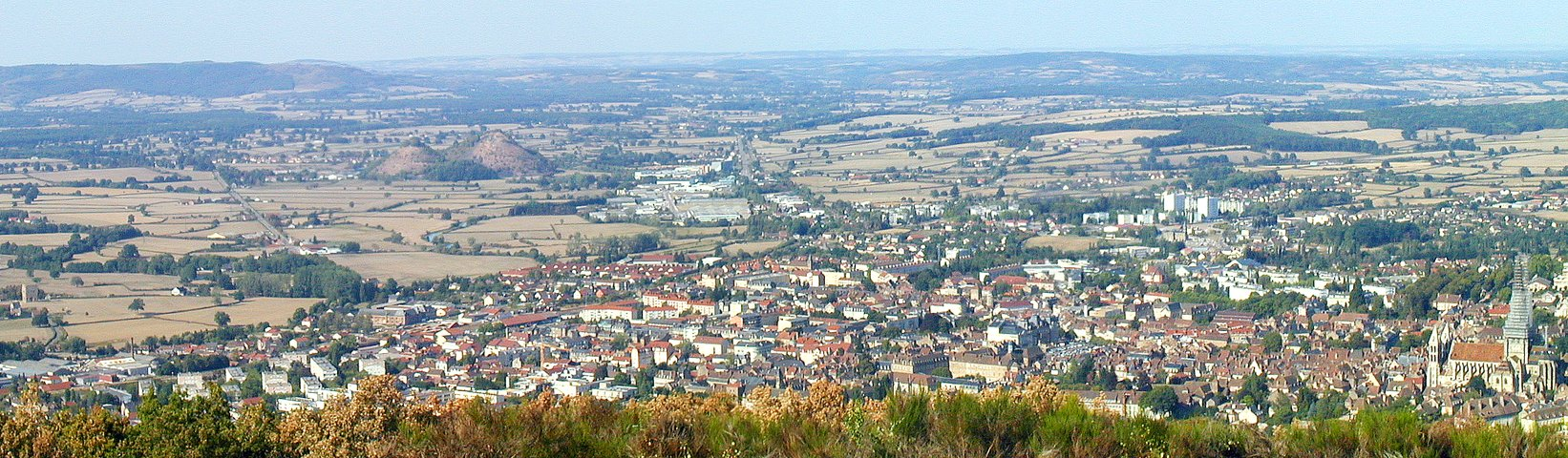 Panoramic view of Autun, Burgundy, France. Photo taken looking north from the Croix de la Libération scenic view. From left to right we can see the Temple of Janus, the Telots mine, the Arroux plain , the town and its cathedral. June 2003.